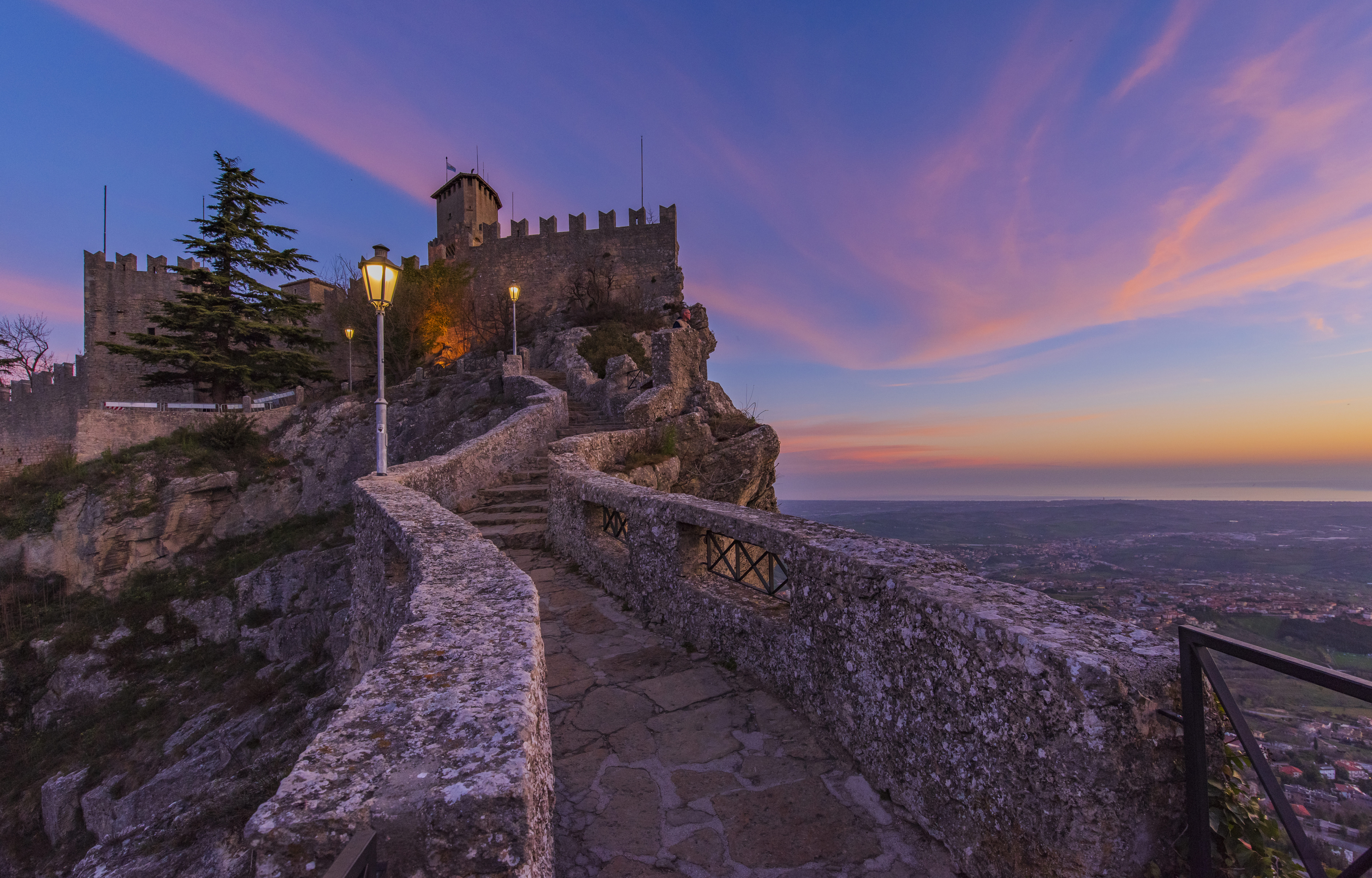 The Fortress of Guaita, San Marino, at sunset.